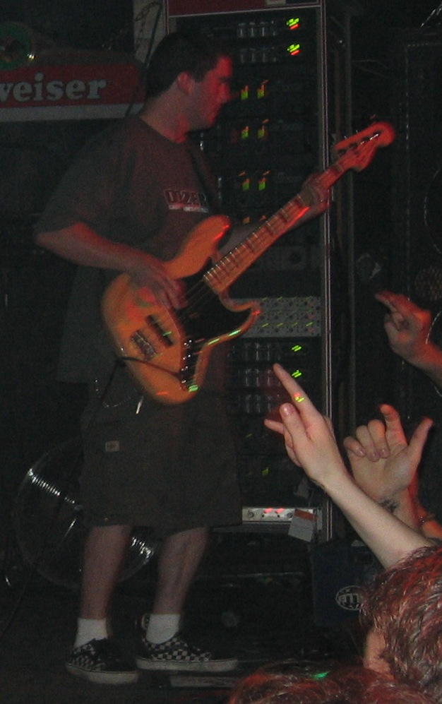 Musician Dan Maines